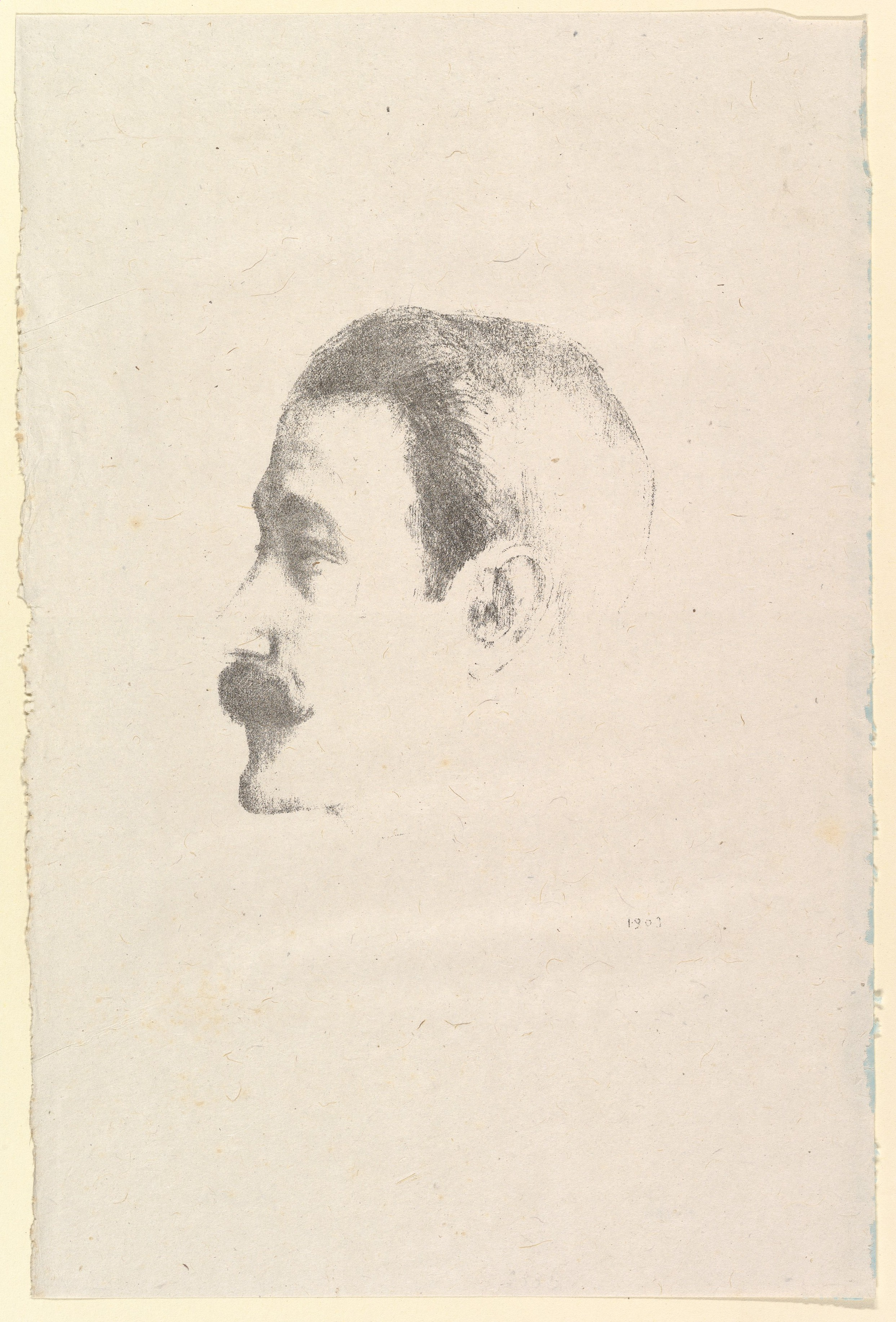 Print; Prints